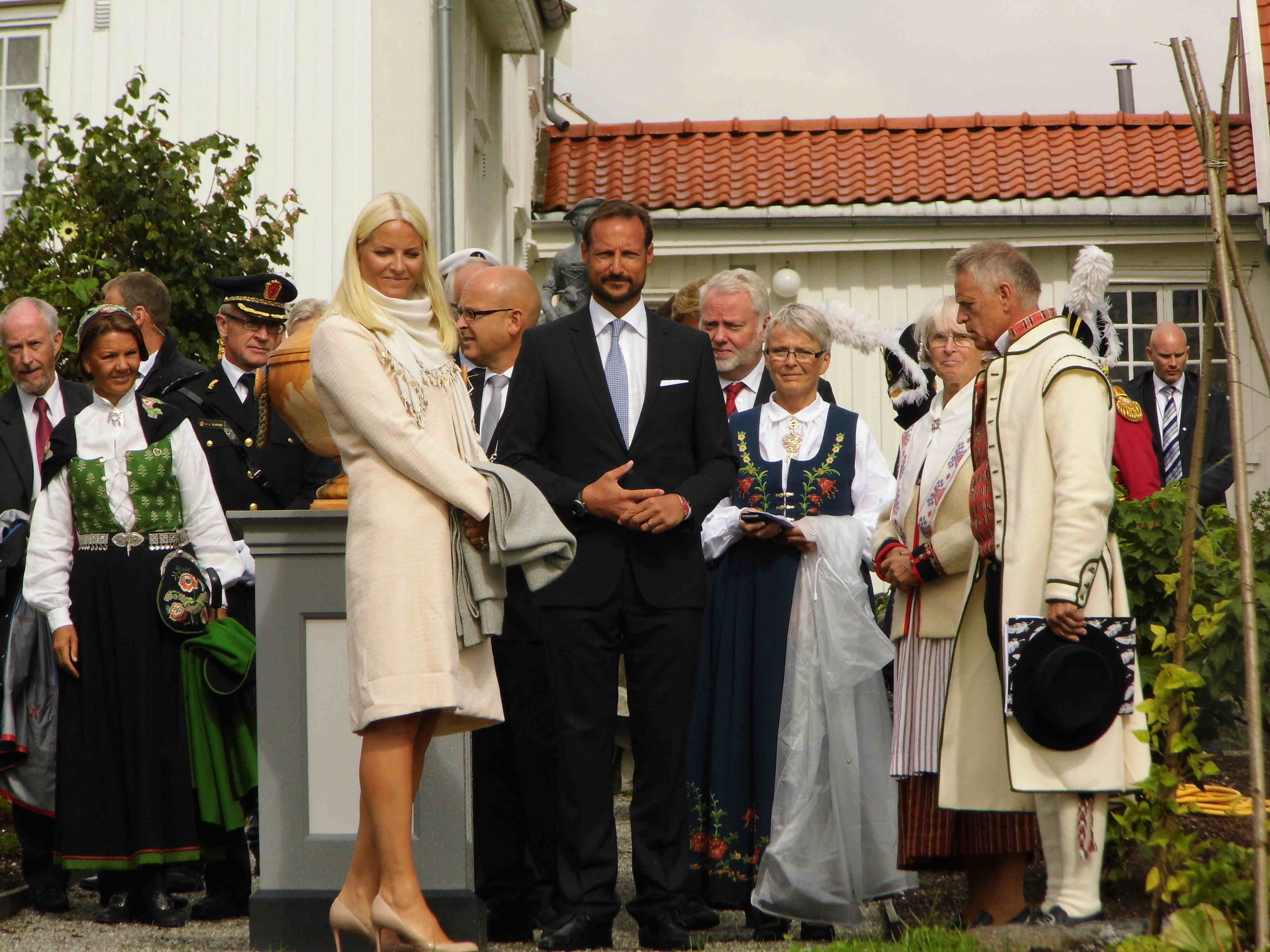 Crown Prince Haakon & Crown princess Mette Marit during a visit to the vicarage at Spydeberg